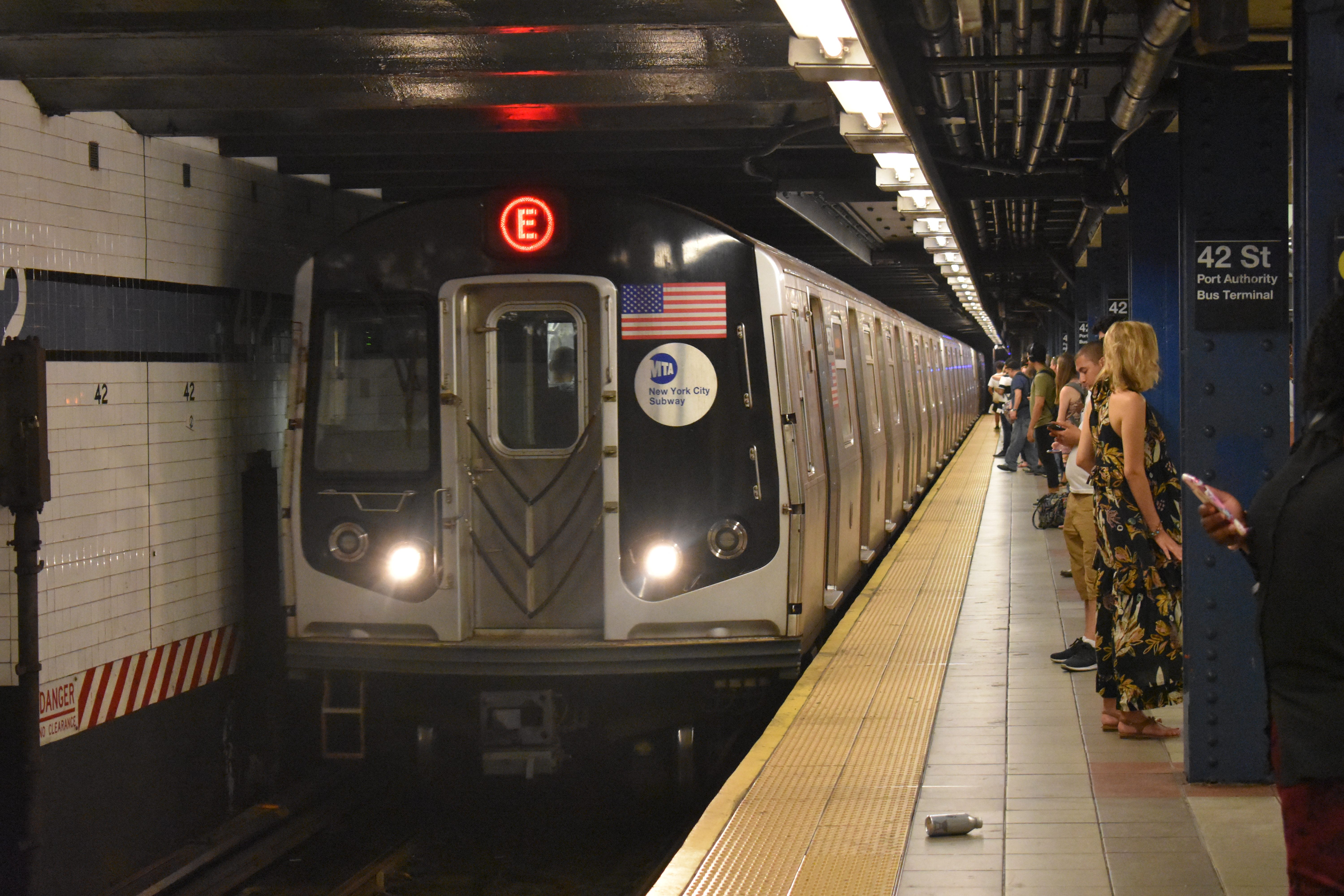 A train made up of R160's on the E line heads to Jamaica Center in Queens.